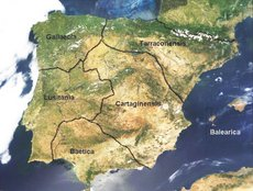 Iberian Peninsula under Dioclecian, 260 AD. Original image Hispania2.JPG by J.A.Freyre, from Wikipedia. Brightness-enhanced by User:Jorge Stolfi on 2006-01-31. Released into the public domain.